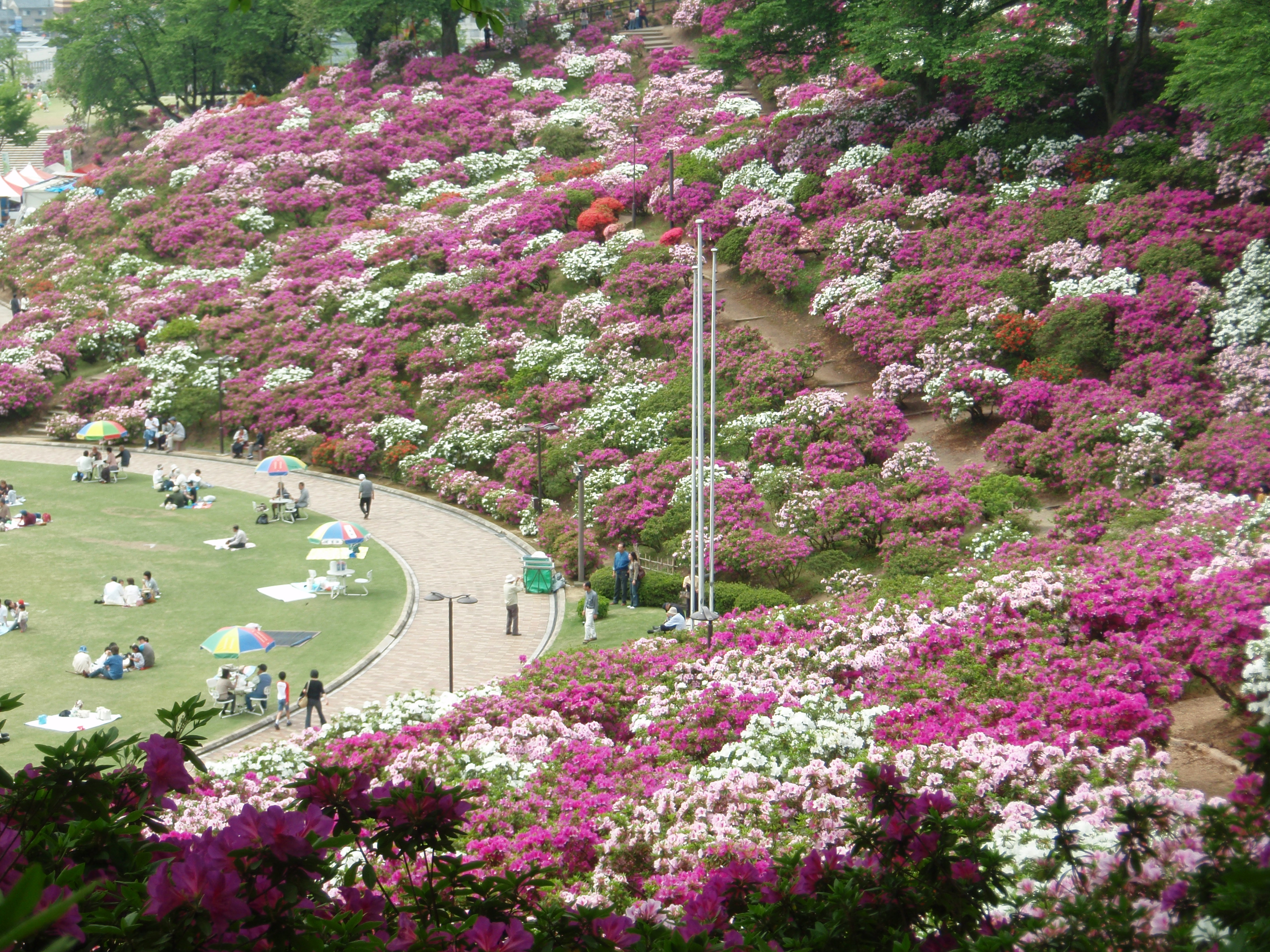 Azaleas in Nishiyama Park, Fukui Prefecture, Japan